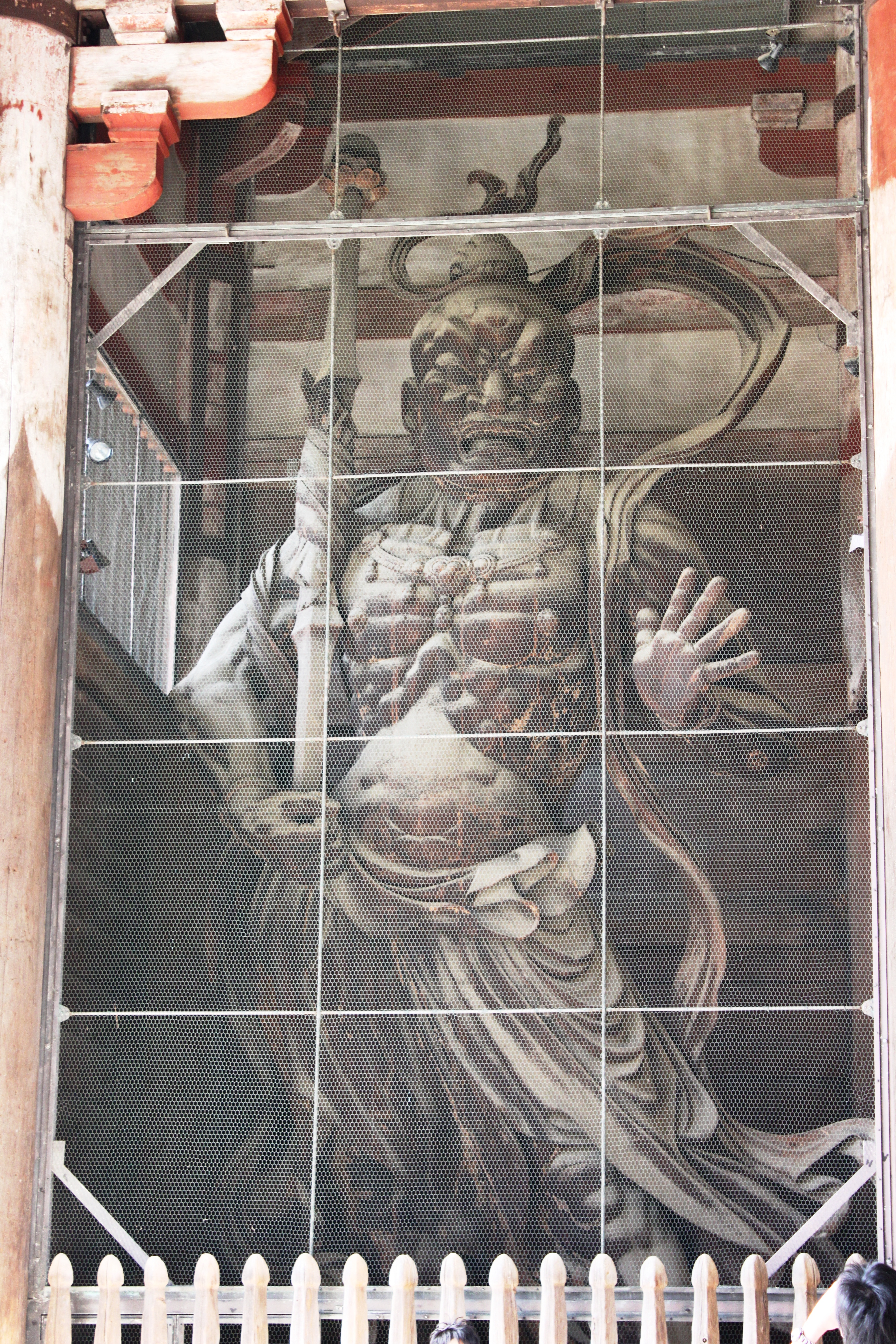 Vajradhara of The South Gate of Todaiji Temple, Nara, Japan.